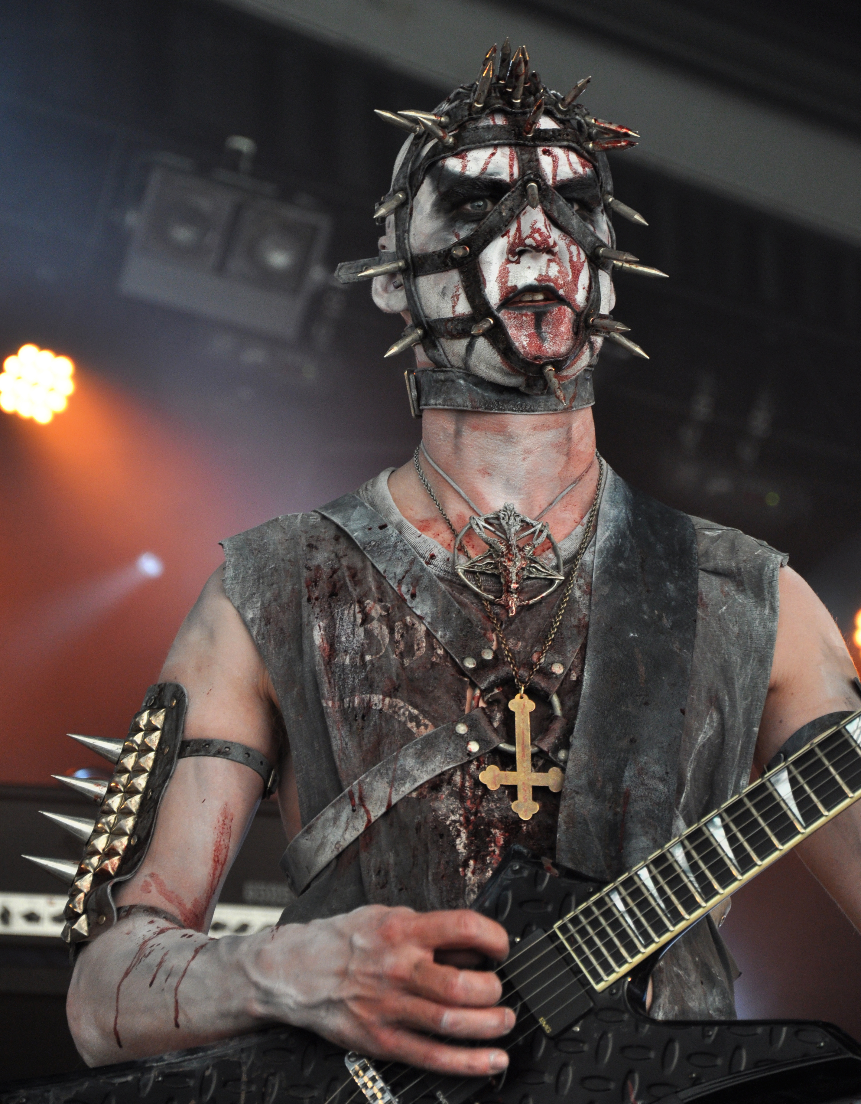 Enzifer, a guitarist of Urgehal, a Black Metal band from Norway, at the Metal Mean Festival, in Méan (Belgium) on the 20th of August 2011.